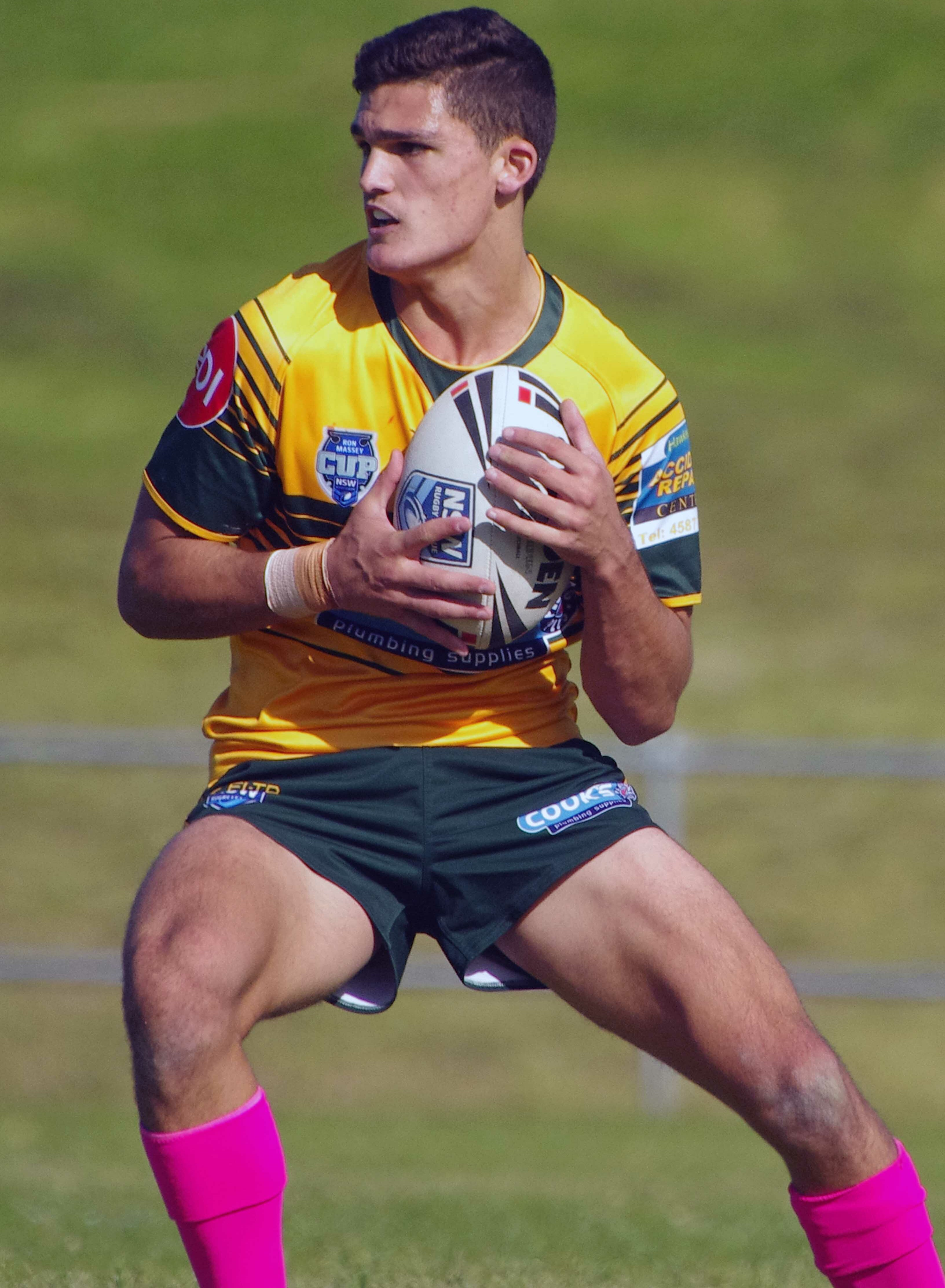 Nathan Cleary